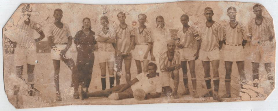 Formiga Esporte Clube em 1934